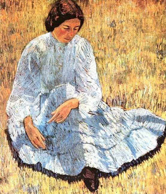 Lisa in the sunlight